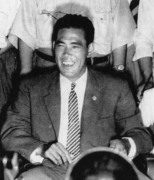 Giichiro Shiraki